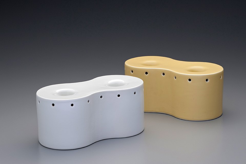 Umbrella stand (19xx), Masahiro Mori (ceramic designer) designed